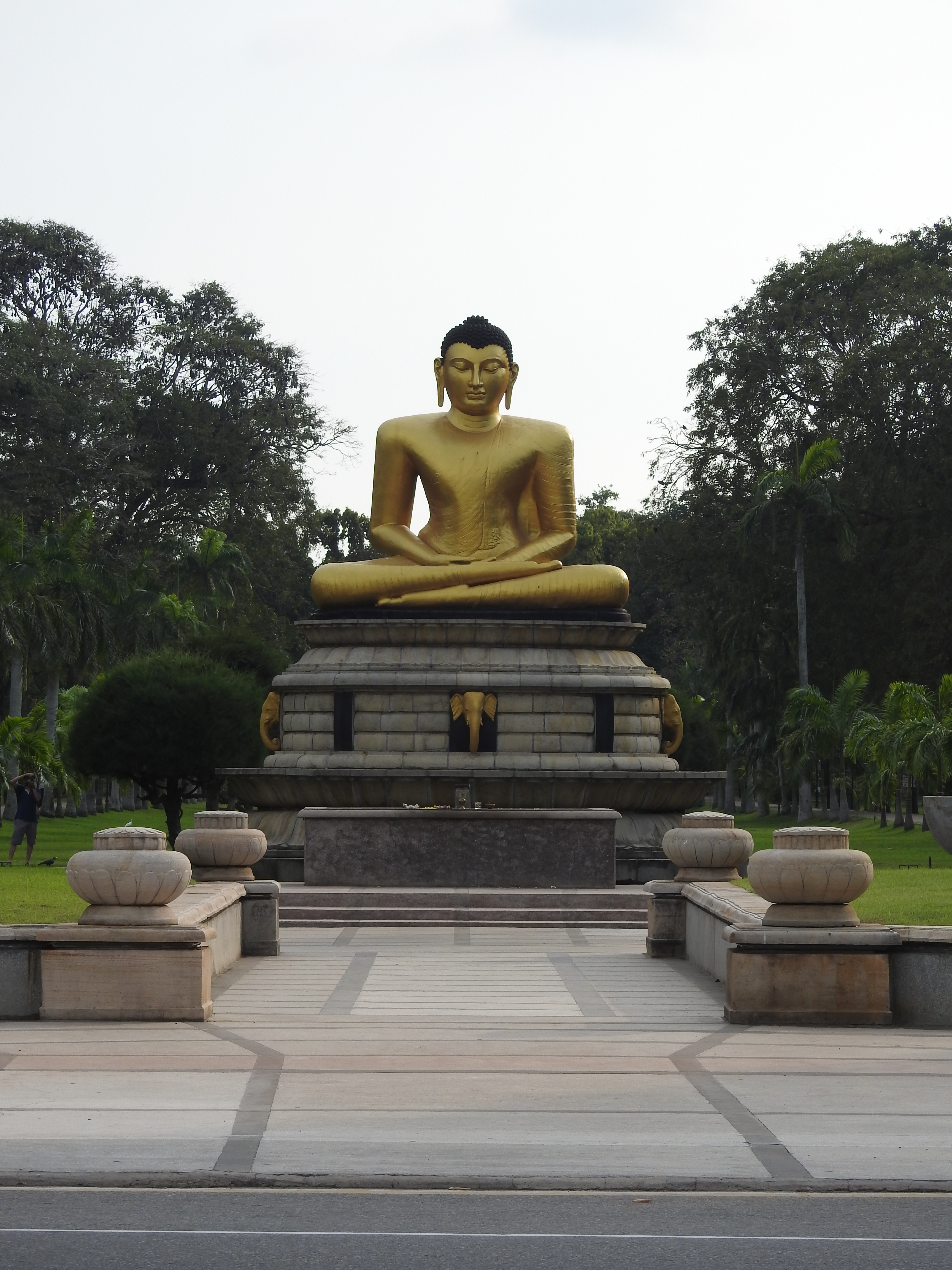 Photo of a Buddhist statue at Viharamahadevi Park taken during a photowalk by User:Rehman and User:Azeez as part of the Wikimedia Community User Group Sri Lanka. The photowalk covered the tallest structures in Colombo that are either completed or under construction.